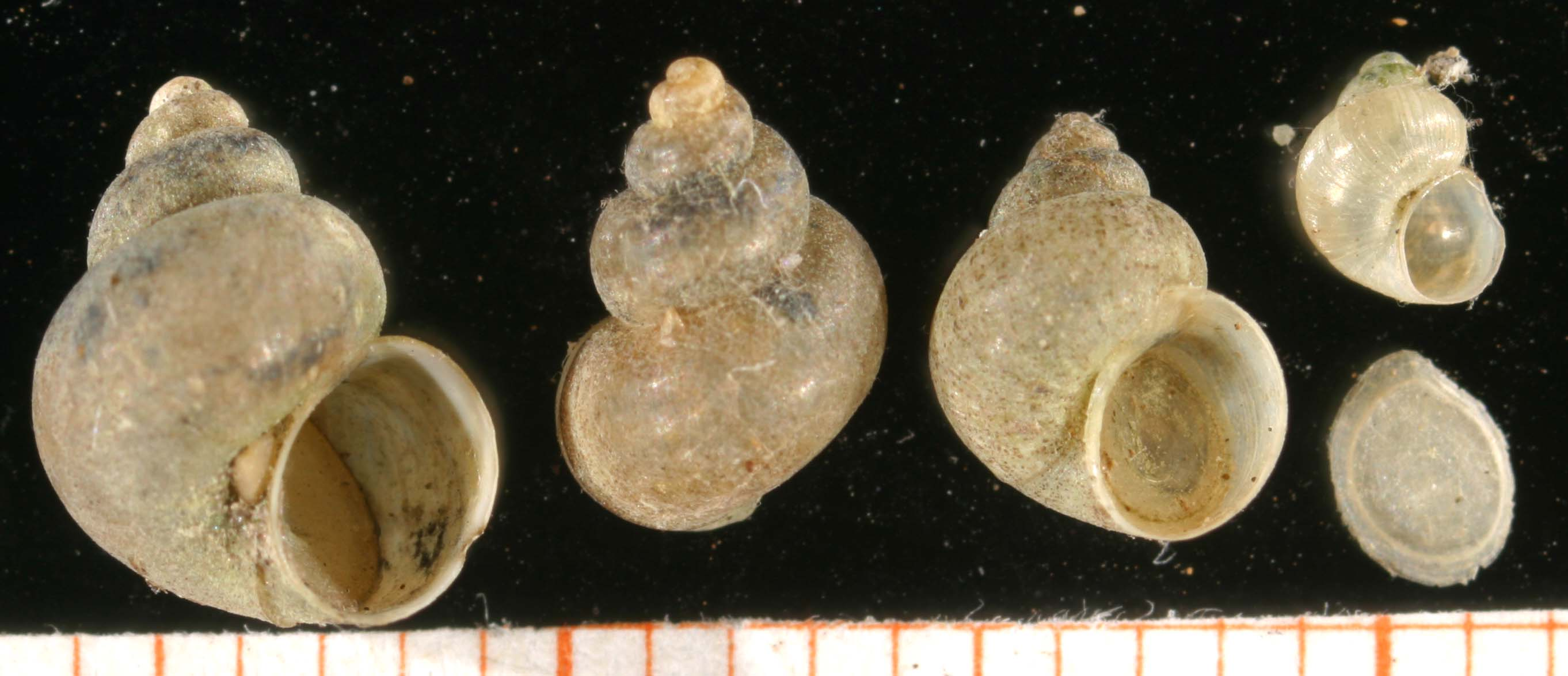 Photo of Bithynia leachii. Scale in mm. Locality: Germany: Schleswig-Holstein, Kellersee. Date: 17-06-1967.